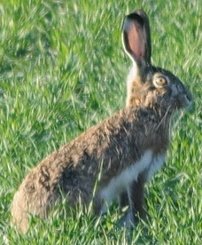 Iberian hare (Lepus granatensis)